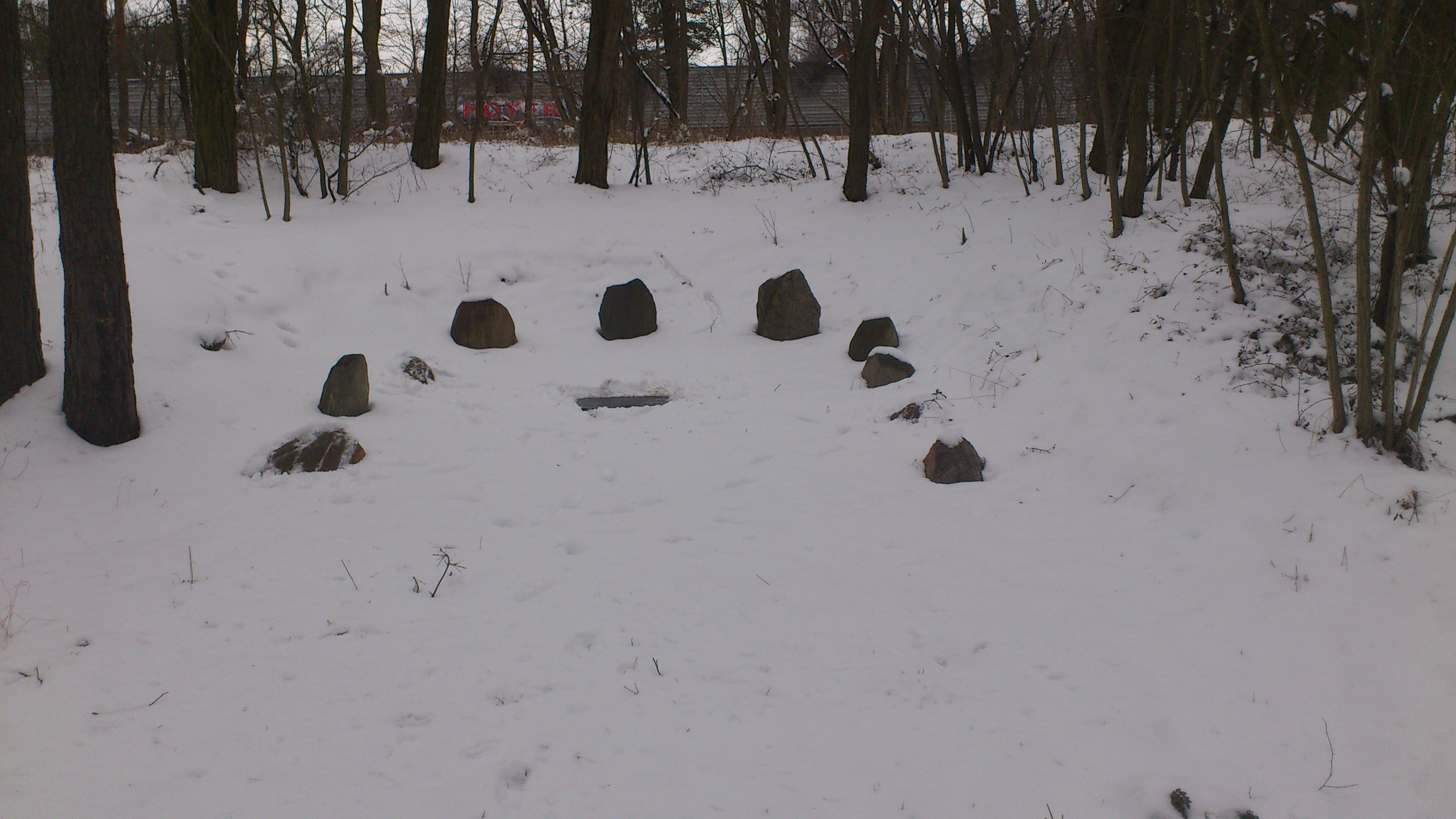 Memorial Schacht Schermen